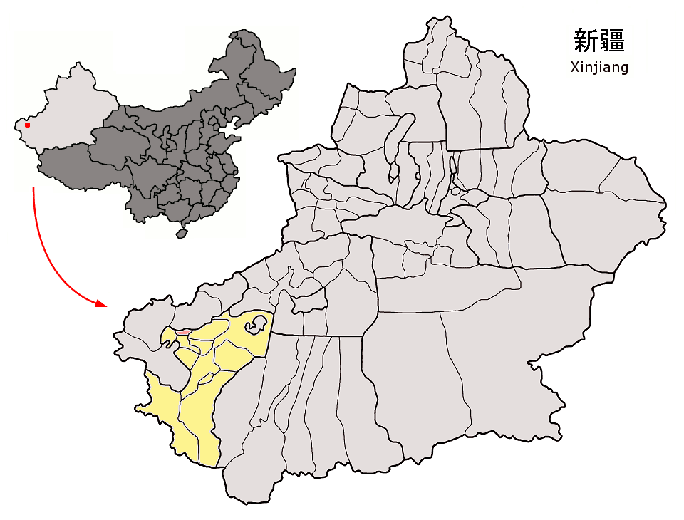 Location of Kashgar City (pink) and Kashgar Prefecture (yellow) within Xinjiang autonomous region of China Map drawn in september 2007 using various sources, mainly : Xinjiang Uygur autonomous region administrative regions GIS data: 1:1M, County level, 1990 Xinjiang Counties map from